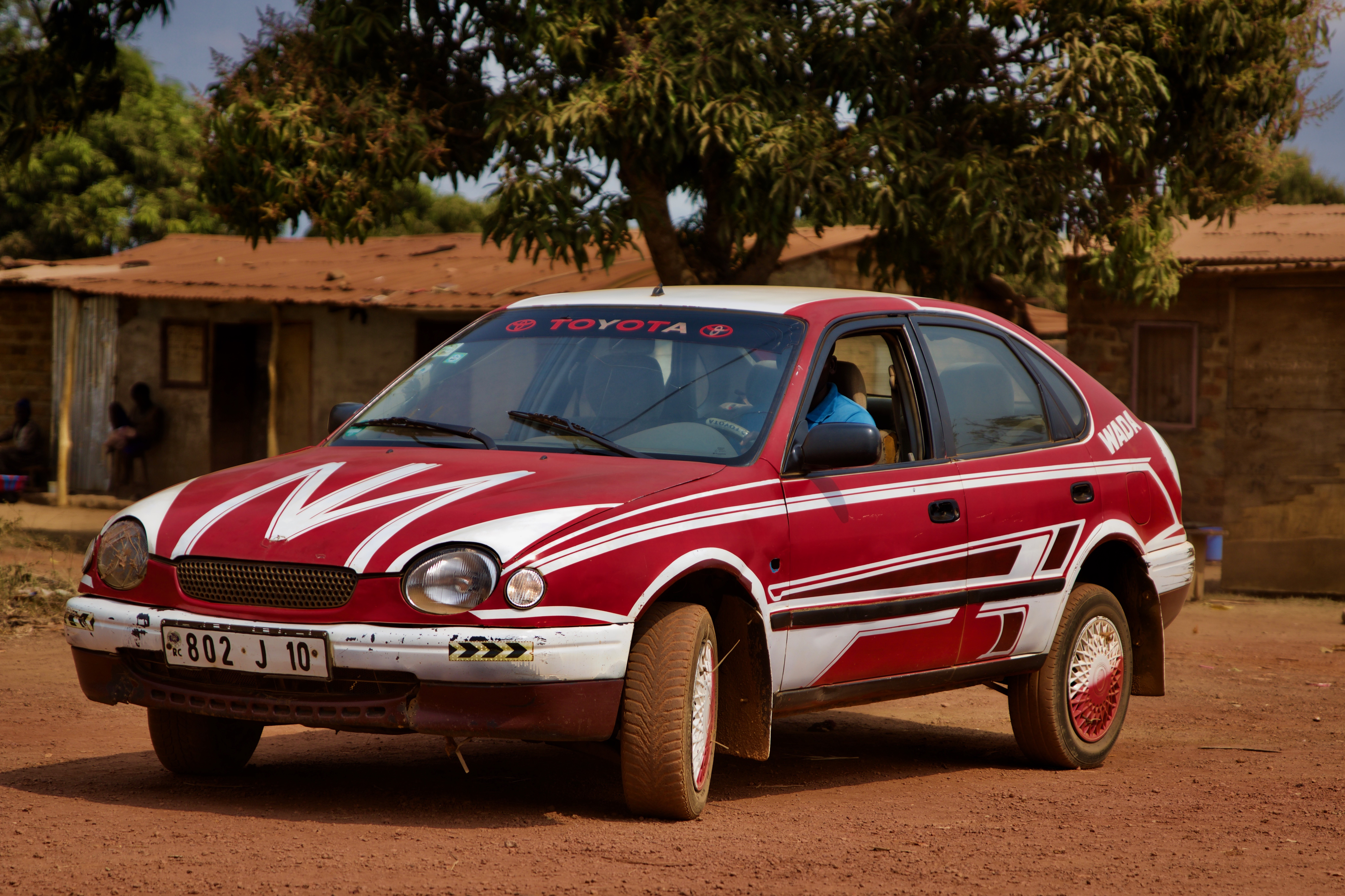 This is an image with the theme "Africa on the Move or Transport" from: Congo